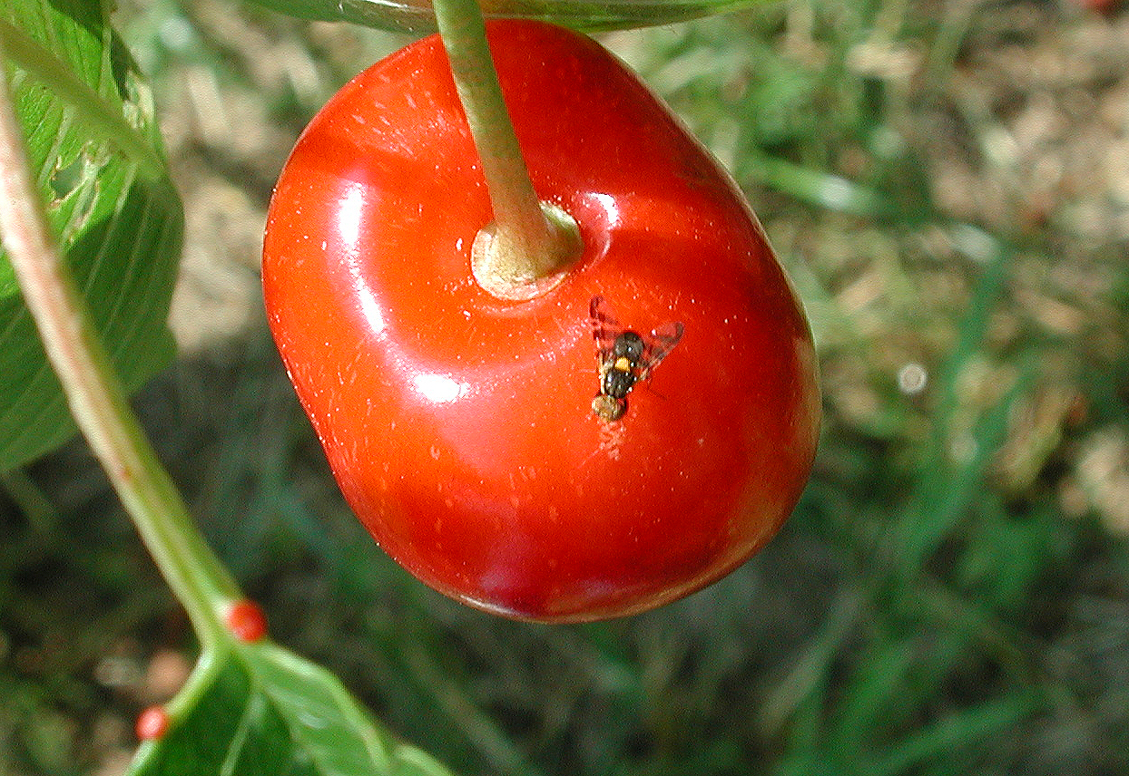 Rhagoletis cerasi